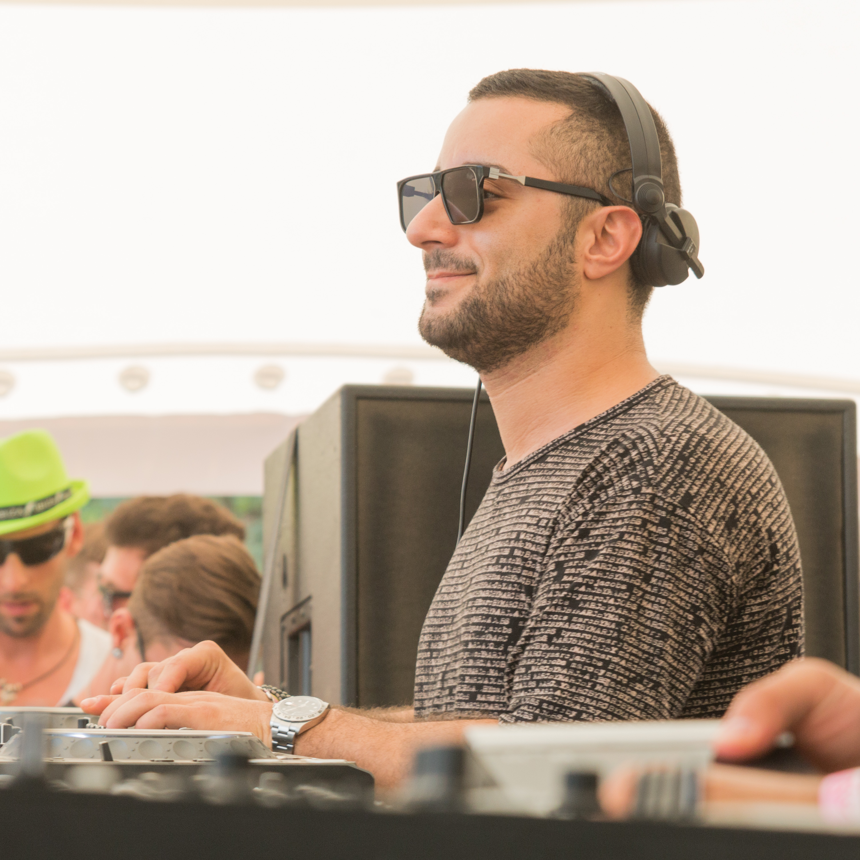 Joseph Capriati at the Sea You Festival in Freiburg im Breisgau on July 19th, 2015.